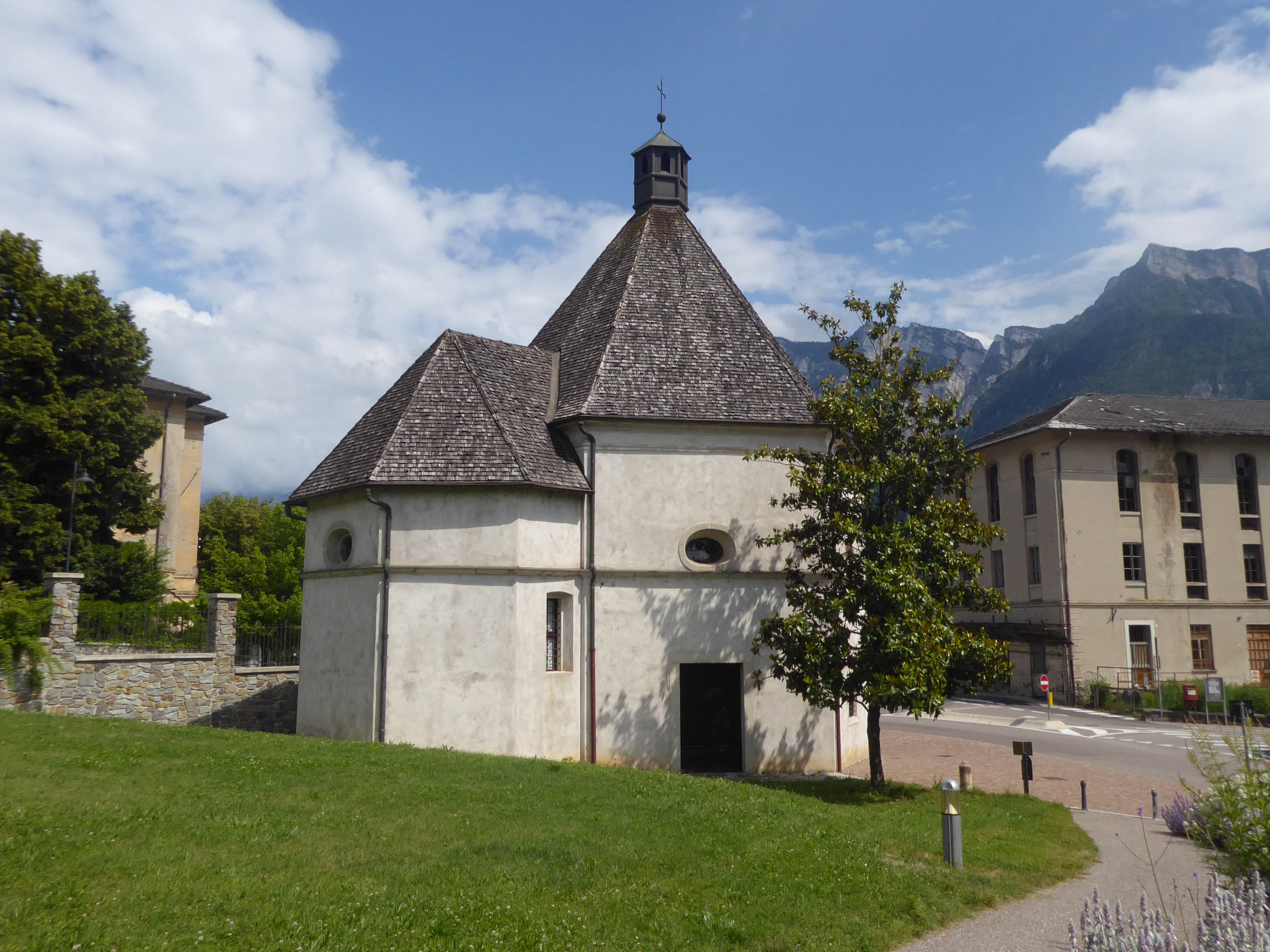 Levico Terme (Trentino, Italy) - Madonna del Pezzo church